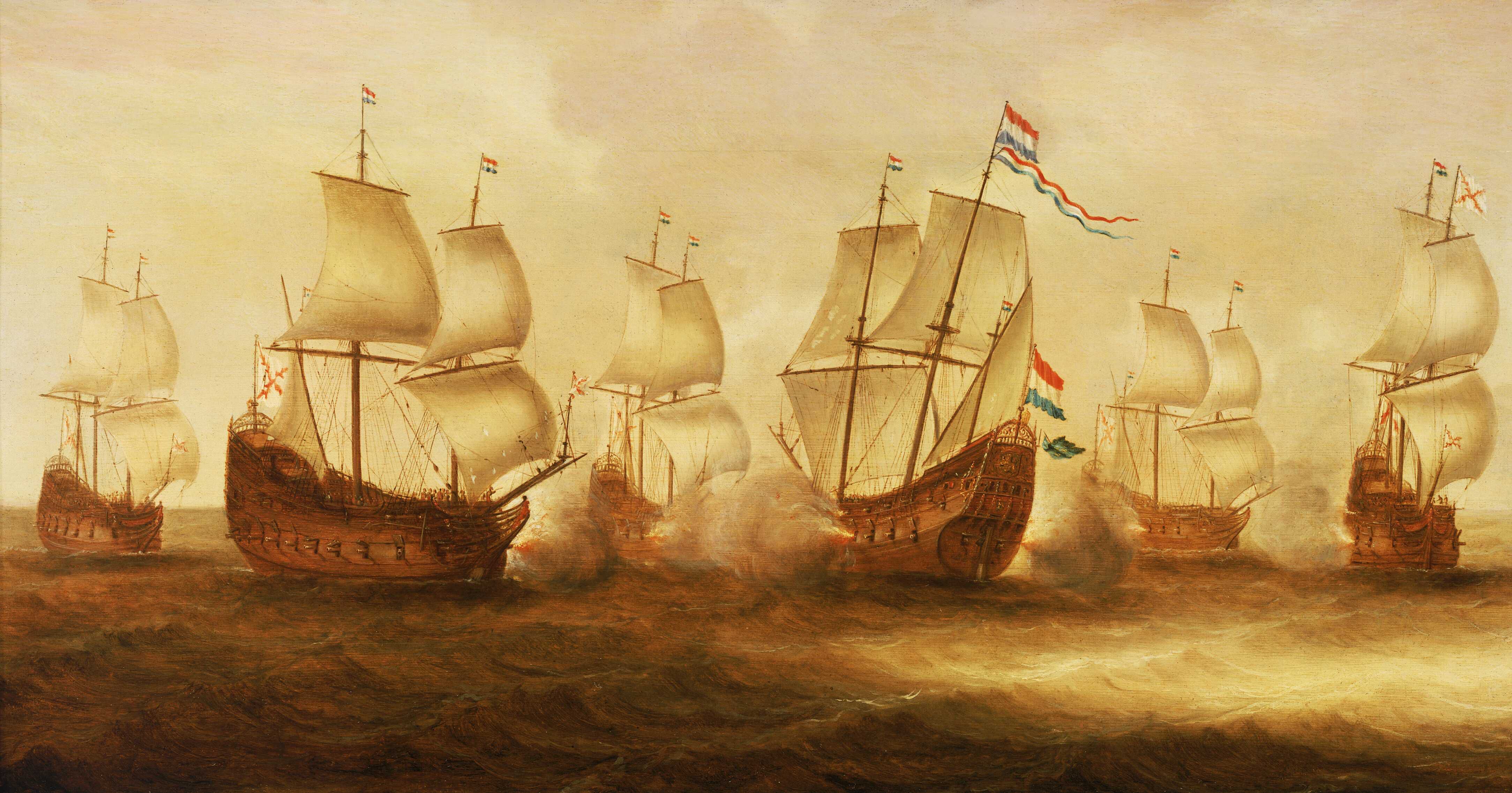 Witte de With's Action with Dunkirkers off Nieuwpoort, 1640 During the Thirty Years War, Spanish naval power reached unprecedented levels. The ports and shipyards of Flanders, particularly Dunkirk, were the focus of maritime revival. The Flanders fleet which evolved in response to Dutch sea power became the most devastating and effective unit in Spain's defence establishment. In combination with its privateering auxiliaries, this élite striking force dominated the North Sea between 1625 and 1645, and also campaigned in the Mediterranean and Atlantic. The scene depicts a struggle between galleons with no smaller ships or frigates in view. It is an interpretation of a Dutch ship, flying the Dutch flag and pendants, attacked by five Dunkirk privateers. They fly the Burgundian ragged-cross flag of the Spanish Netherlands. Guns are being fired from the defending Dutch ship in port-quarter view on the right and from the attacking Dunkirker to the left, seen nearly in starboard-broadside view. This interpretation probably depicts the 1640 engagement between the Dutch commander de With and the Navarrese Admiral Miguel de Horna, who was the overall sea-commander of the Spanish Flanders fleet. In July 1640 he was intercepted by de With when returning from a privateering voyage. The battle that ensued was long and bloody but the Dutch commander was able to capture two Spanish vessels. The painting is one of a pair with BHC0272, probably commissioned by either a merchant or specific ship owner whose property had been saved or rescued by de With. Both paintings probably depict the same encounter from 1640, since they are similar in overall design and in details of light, weather conditions and vessels shown. Witte de With's Action with Dunkirkers off Nieuport, 1641